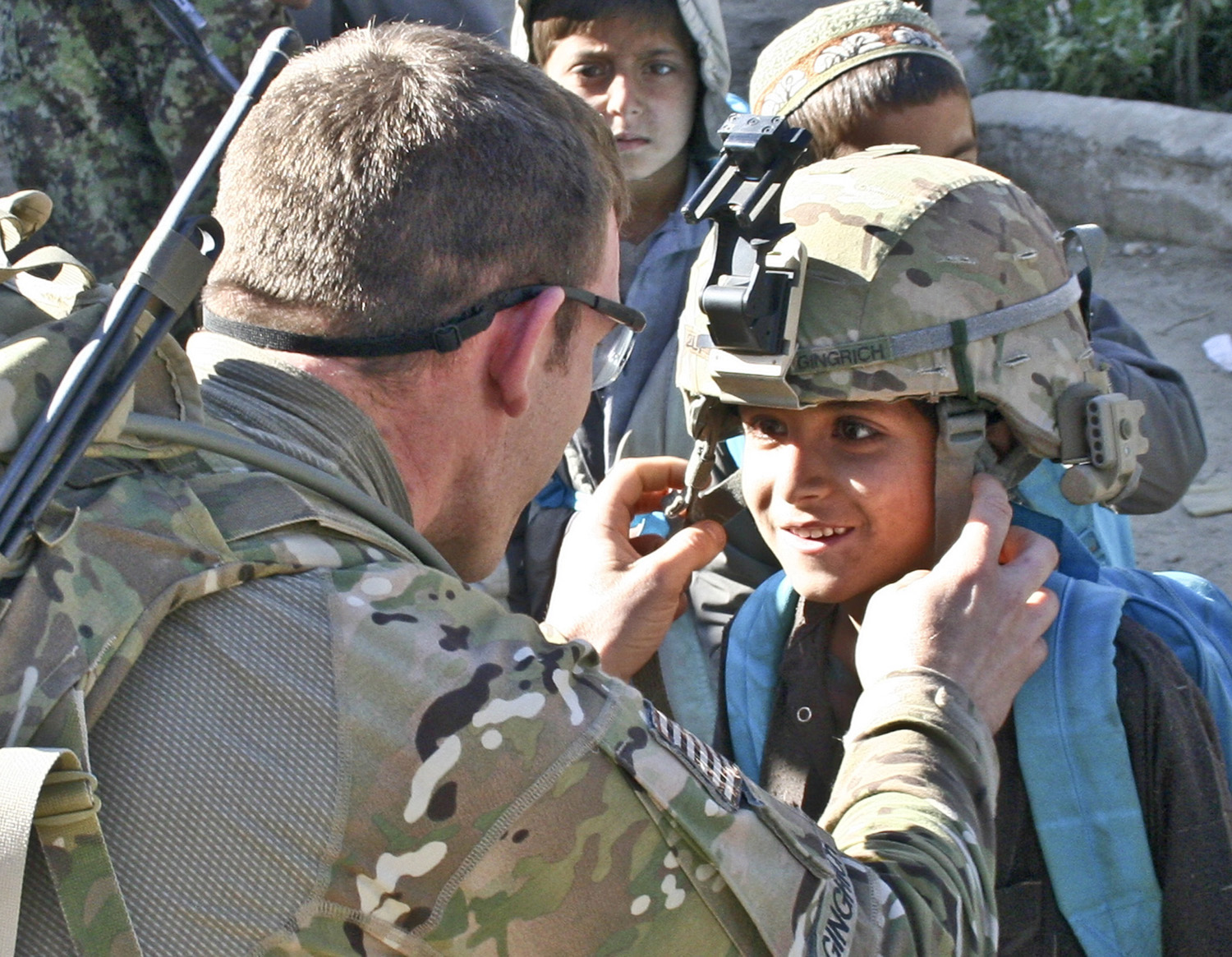 U.S. Army 2nd Lt. Taylor Gingrich, an infantry officer from Cedar Falls, Iowa, with Company A, 1st Battalion, 133rd Infantry Regiment, Task Force Ironman, a part of 2nd Brigade Combat Team, 34th Infantry Division, Task Force Red Bulls, draws a smile from a small Afghan boy as Gingrich lets the boy wear his helmet at Quala e’ Najil School in Najil Jan. 3. The soldiers from Company A, as well as Afghan National Army soldiers from 1st Company, 1st Battalion, 201st Infantry Regiment, delivered supplies donated by people from the town of Waverly, Iowa, and its surrounding communities. Combined Joint Task Force 101 Photo by Staff Sgt. Ryan Matson Date Taken:01.03.2011 Location:LAGHMAN PROVINCE, AF Related Photos